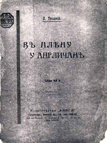 Leon Trotsky